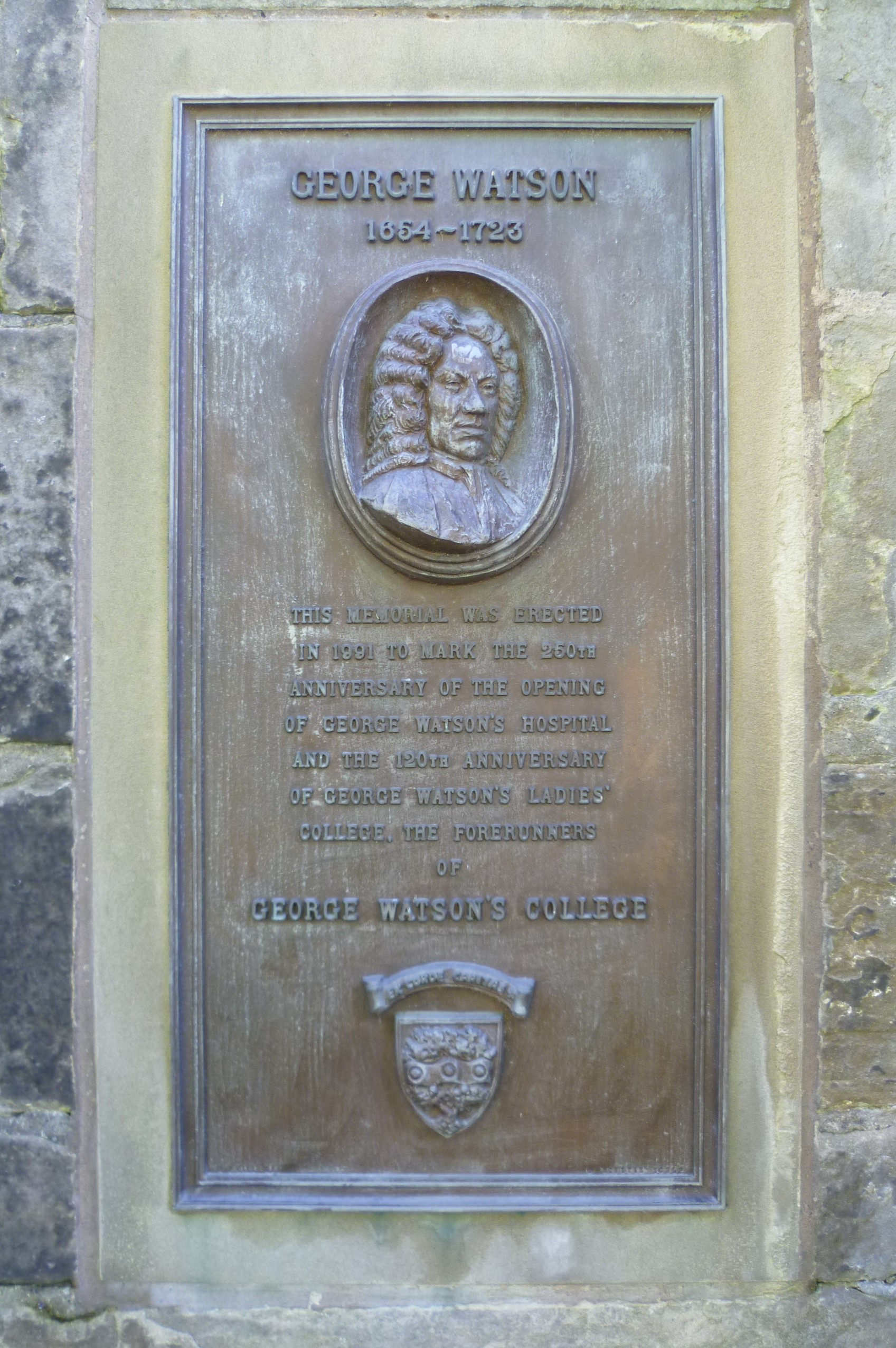 A plaque in Greyfriars Kirkyard marking the 250th anniversary of the opening of George Watson's Hospital in 1741